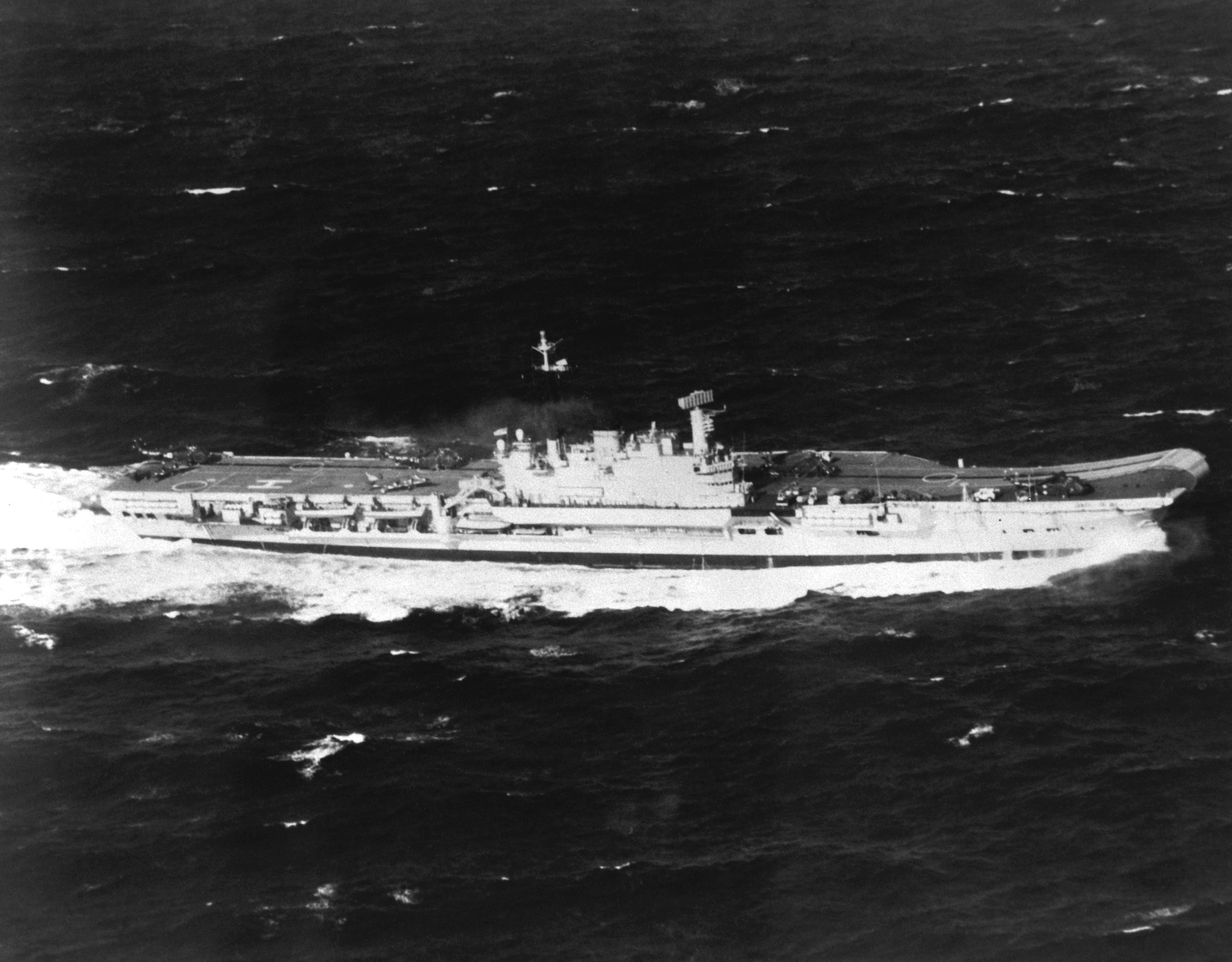 The Royal Navy aircraft carrier HMS Hermes (R12) underway on 16 March 1982.